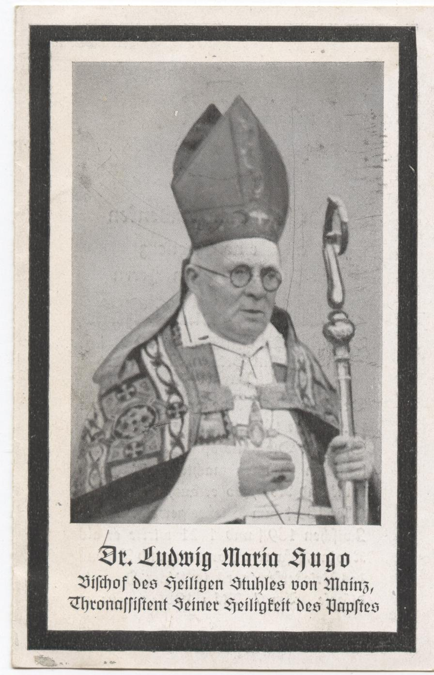 Bischof Ludwig Maria Hugo, Mainz, Sterbebildchen